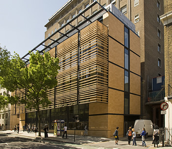 UCL Engineering Front